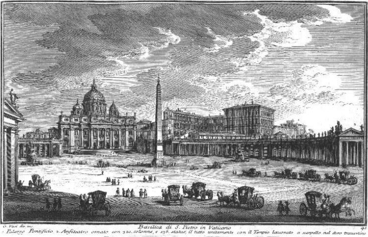 1) Palazzo Apostolico and Palazzo del Belvedere; 2) Amphitheatre.